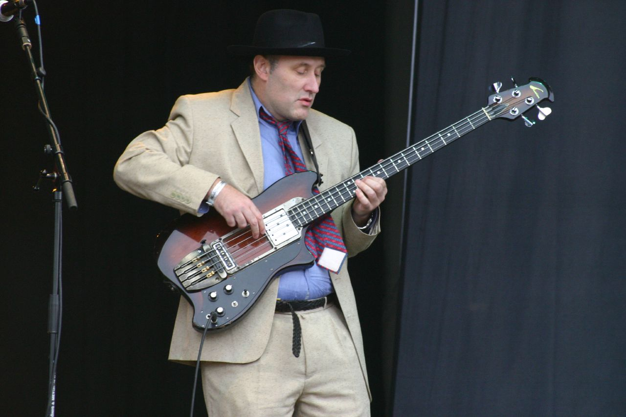 Jah Wobble, Cropredy Festival, Oxfordshire, 11 August 2005